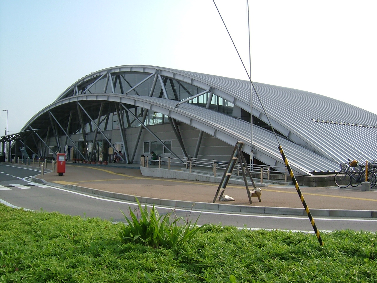 This is a photo of Akayu Station in Yamagata Prefecture, Japan. I took this photo with a digital camera on 6th July 2005.